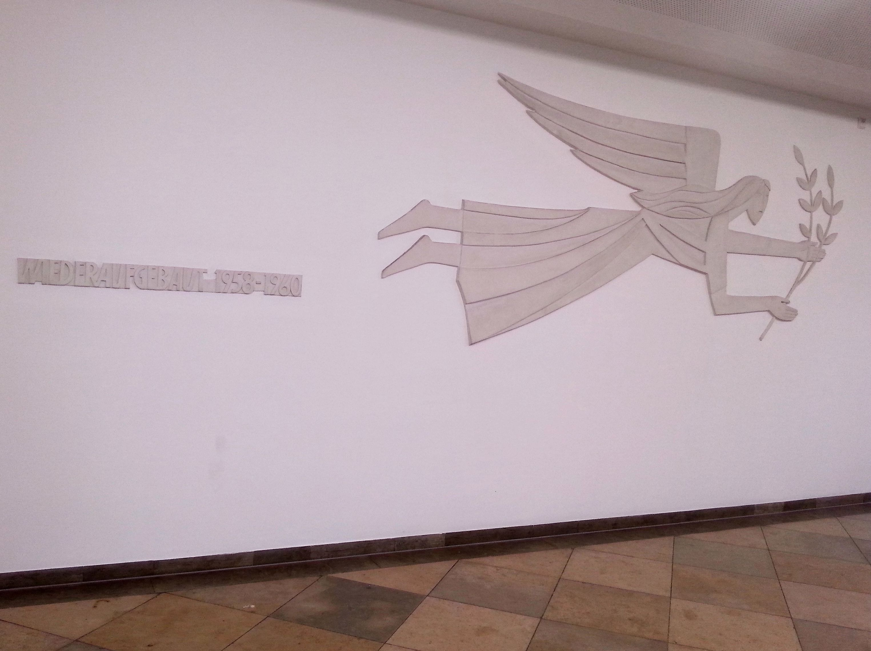 Angel on the second floor of the staircase in the west wing of Mannheim Castle. In memory of the rebuilding of the castle between 1958 and 1960.